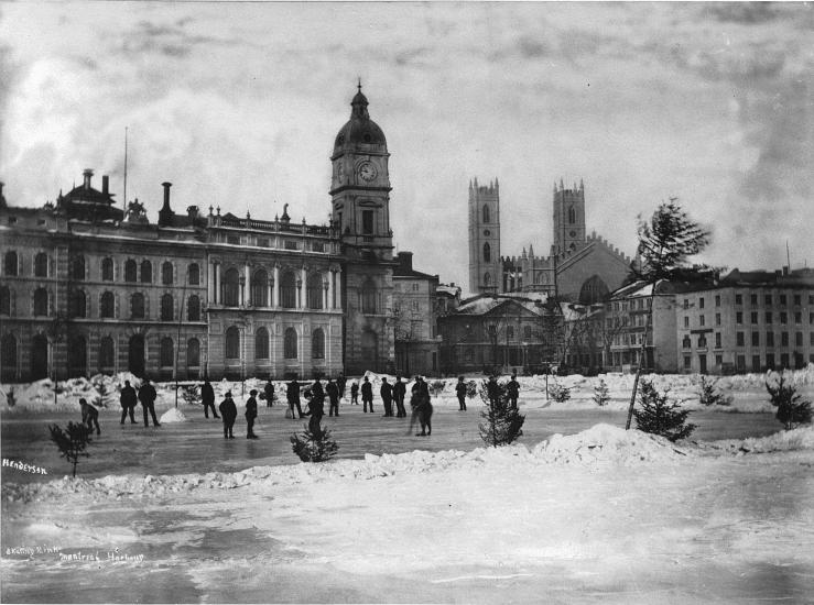 Photograph: Skating rink, Montreal harbour, QC, about 1870, by Alexander Henderson. Silver salts on paper mounted on card - Albumen process - 16 x 21 cm